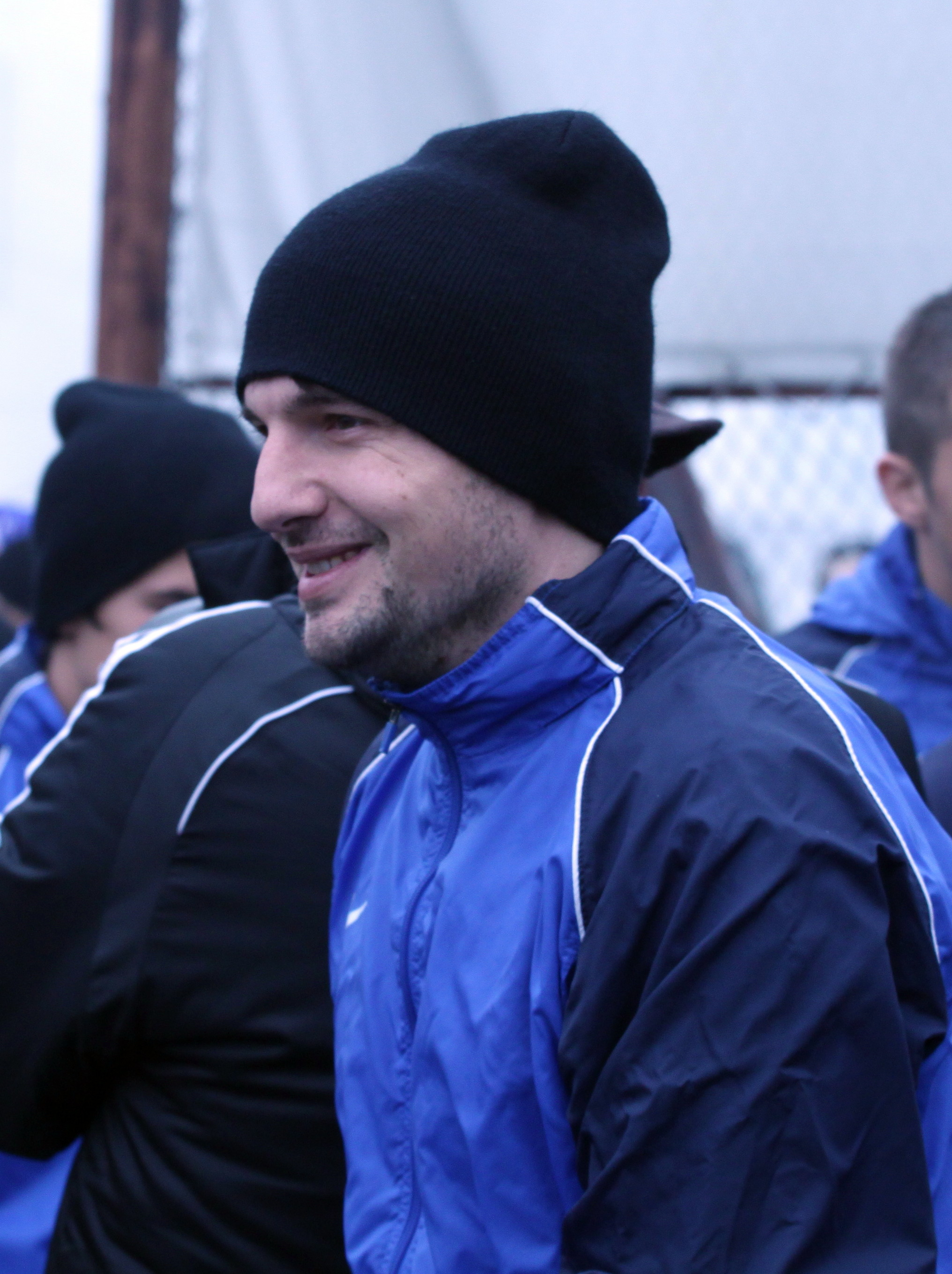 Hristo Iovov - bulgarian soccer player